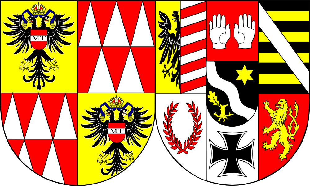 Coat of arms (shield only) of Vinzenz Joseph Franz von Sales von Schrattenbach, bishop of Lavant and St. Andrä, Austria (1777 - 1790, 1795 - 1800), bishop of Brno, Czech republic (1800 - 1816). Personal part based on description in his 1788 princely armorial deed. See Siebmacher:Mähren s. 275